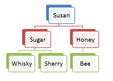 Diagram showing family tree of Queen Elizabeth's corgis. Currently this is just the first three generations.